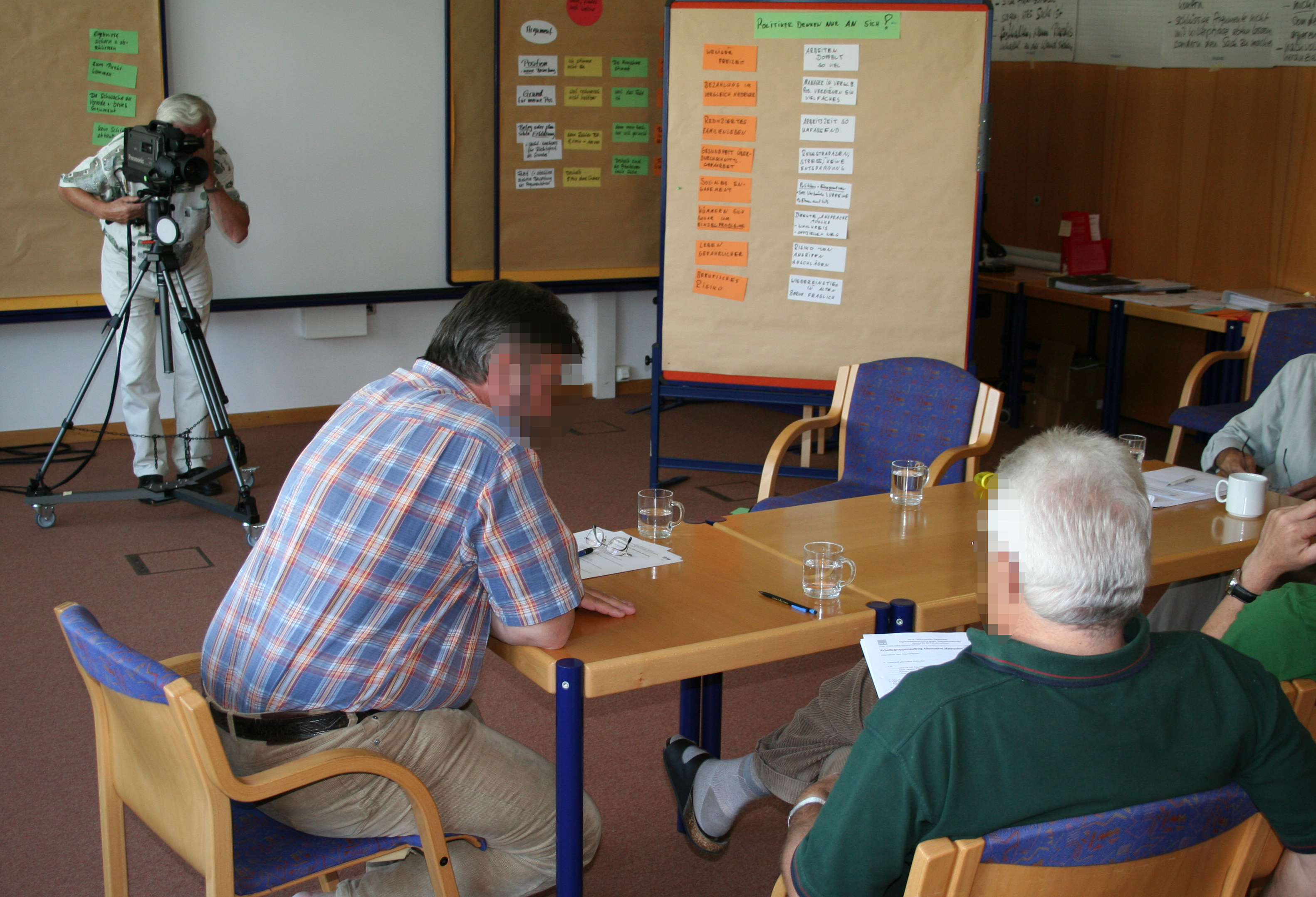 Shoot of a group to reflect oneself afterwards in speaking and argueing.